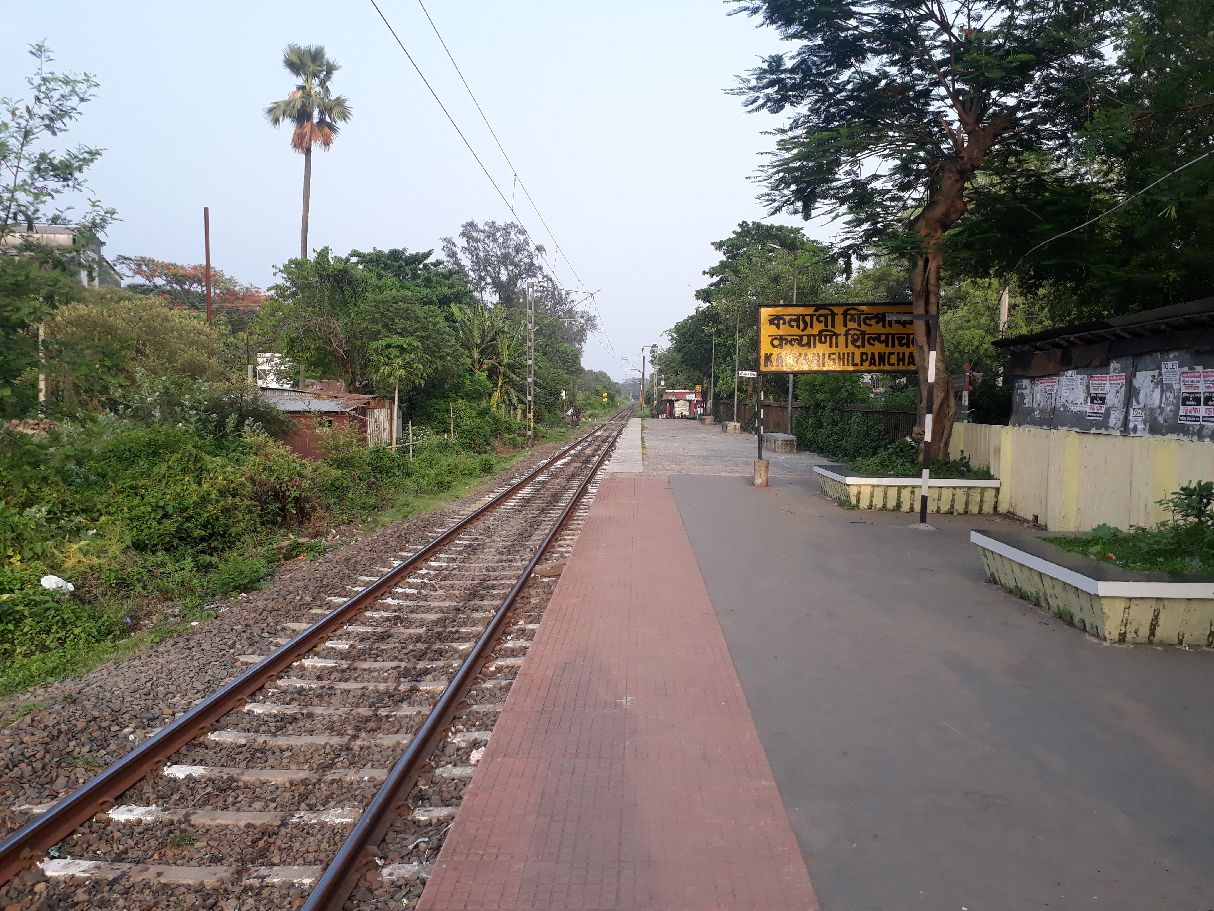 Kalyani Silpanchal railway station in Kalyani Simanta branch line, Kalyani, Nadia district